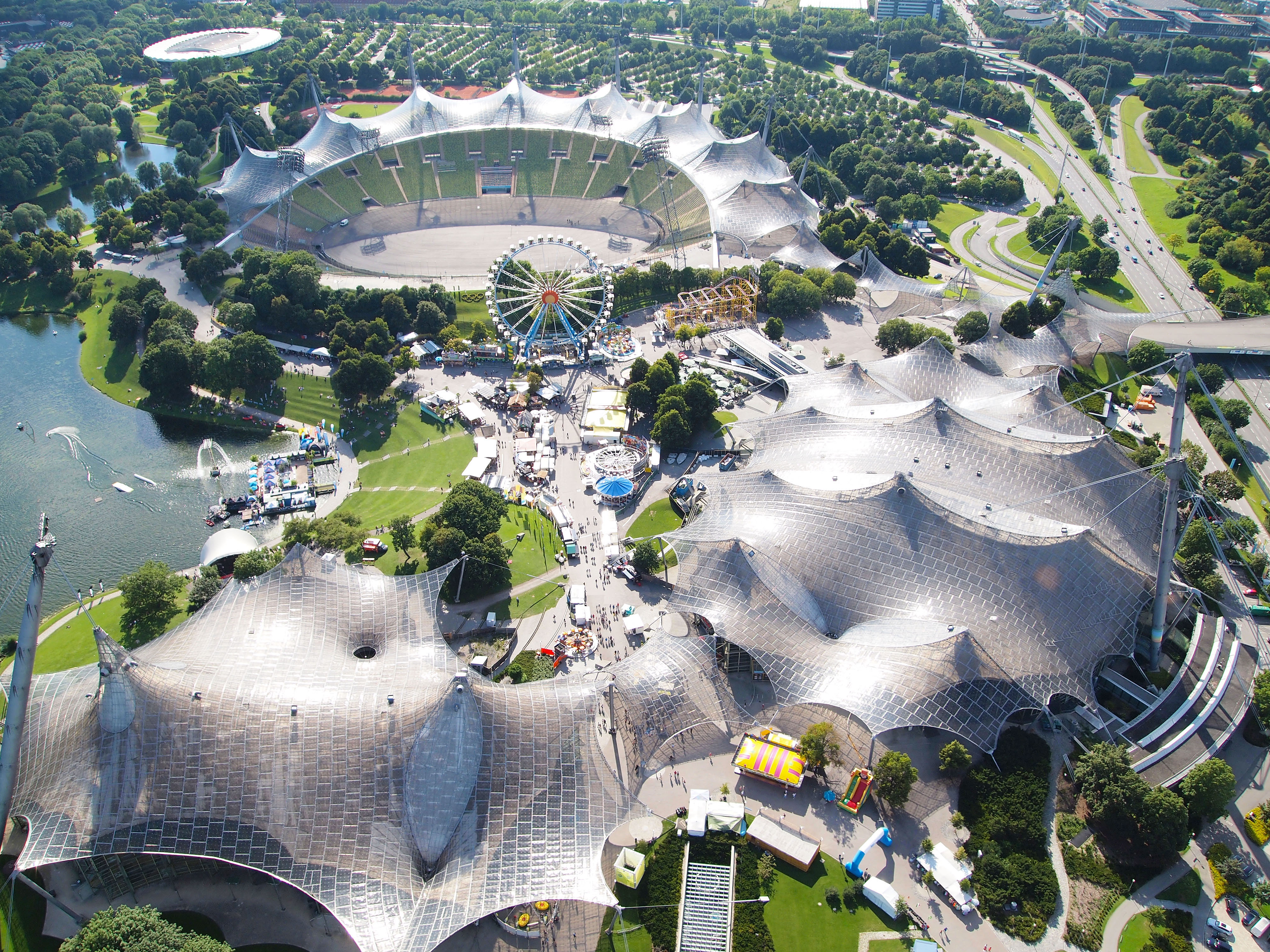 View from Olympiaturm to Olympic Stadium (behind), Olympic Swim Hall (left) and Olympic Hall (right) at the Olympiapark, Munich.This photograph was taken with an Olympus E-PL1